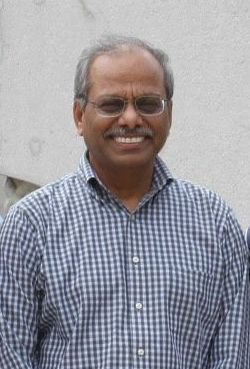 Rakesh Agrawal National Medal of Technology & Innovation Laureate